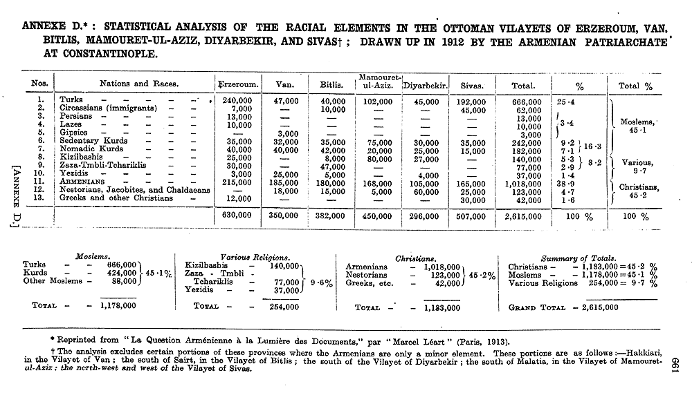 5 Vilayet's population